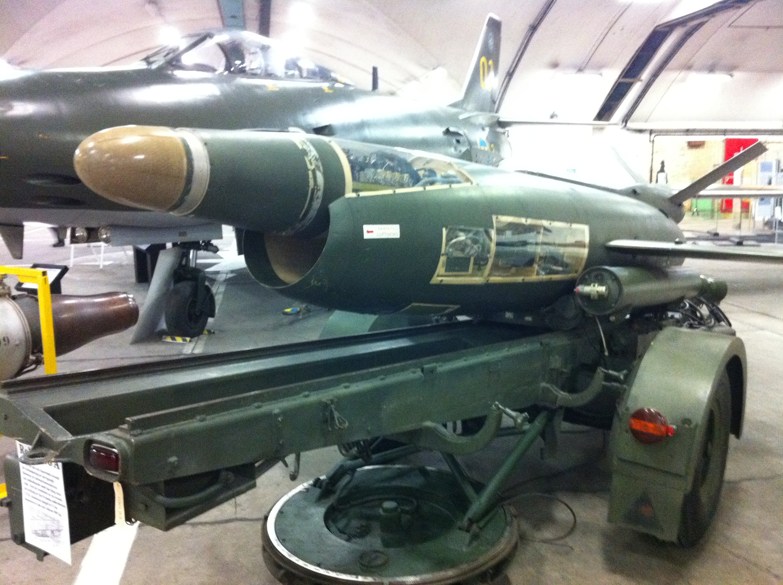 Anti-ship missile Robot 08 A at the museum Aeroseum, the mountain hangar of the former Swedish Airforce wing F 9 Säve.